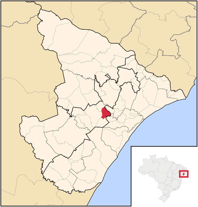 Map of Sergipe highlighting Malhador